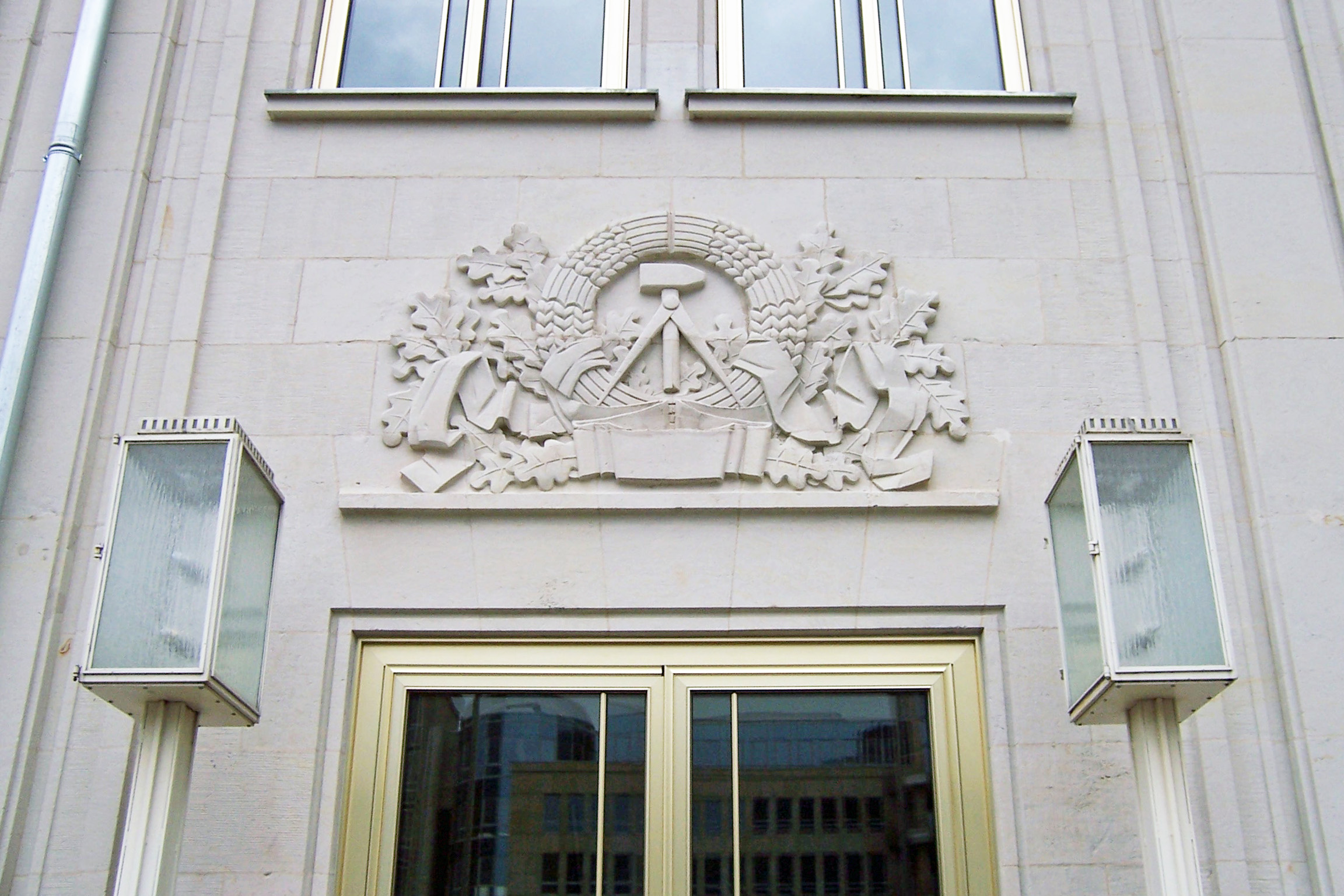 GDR Emblem at the Leipzig Opera House